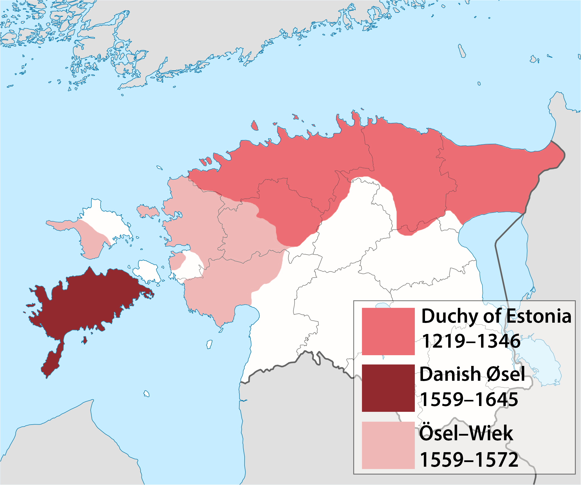 Danish ruled territories in Estonia from 1219-1645.